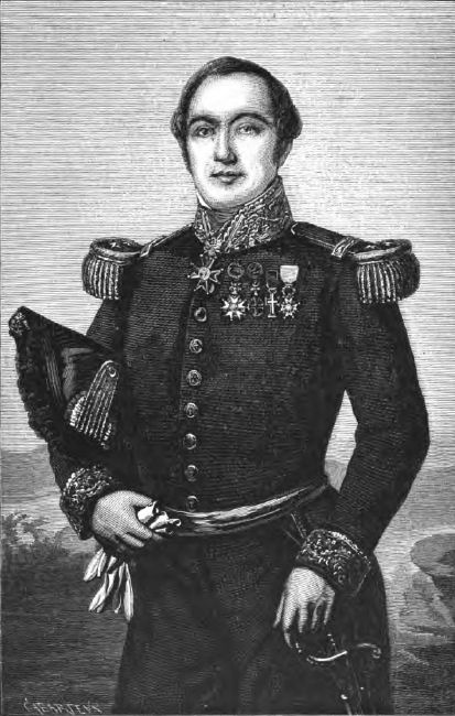 Painting of Admiral_Febvrier_des_Pointes_1796_1855